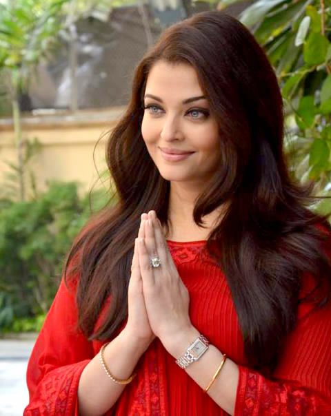 Aishwarya Rai Bachchan celebrates birthday with media